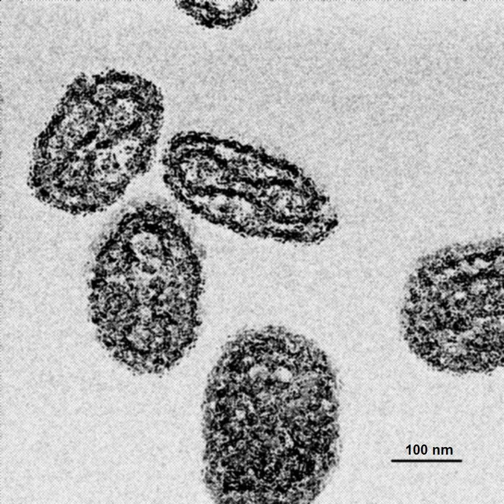 EM enhanced of smallpox virus, grown and taken by lab, please leave authors name if you intend to use it.